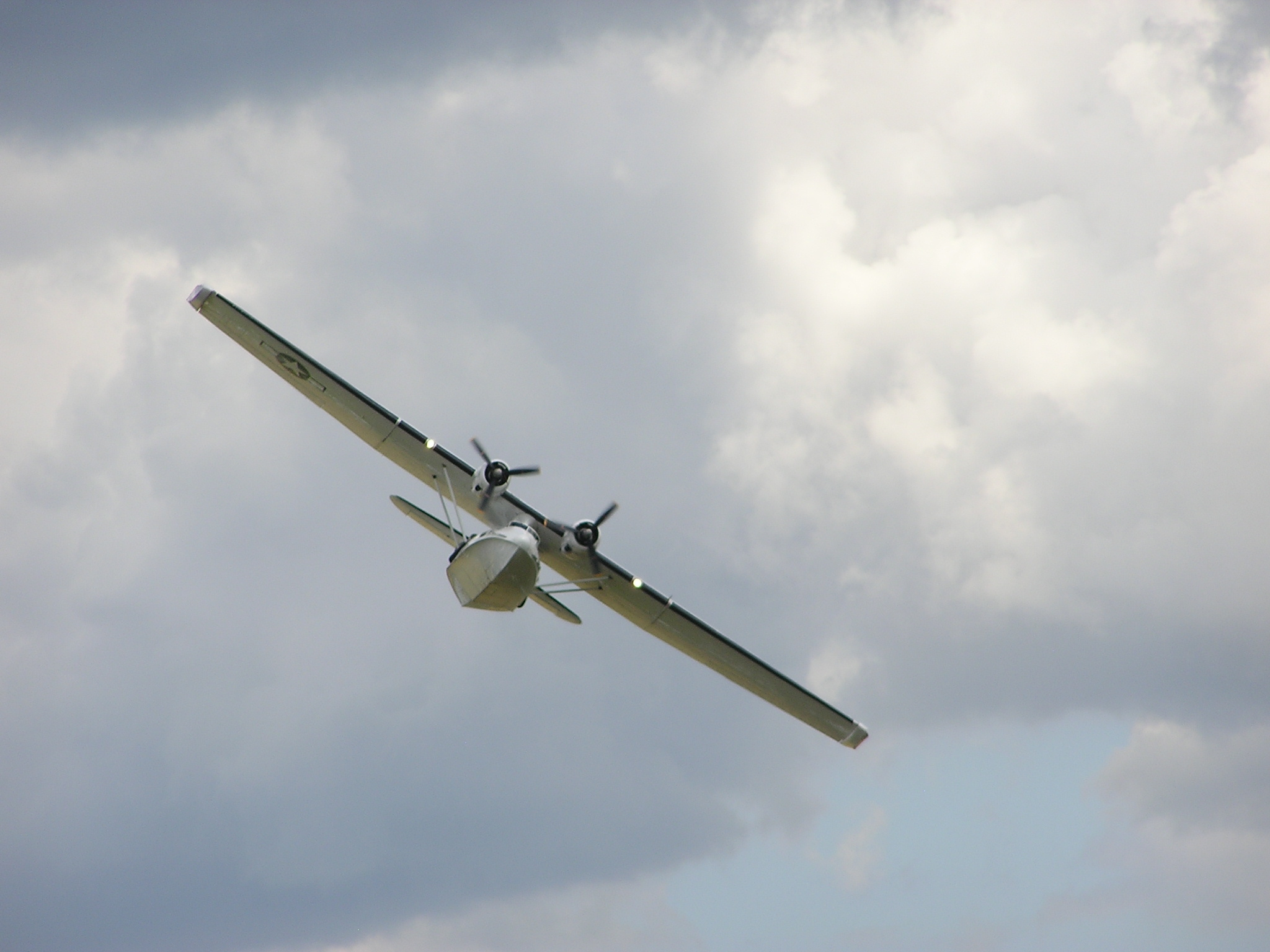 Plane Sailing's Canadian Vickers built PBY-5a Canso, G-PBYA. Originally RCAF 11005, it is now painted as a USAAF OA-10A. Photographed at the 2007 Flying Legends show, Duxford, 8 July 2007.